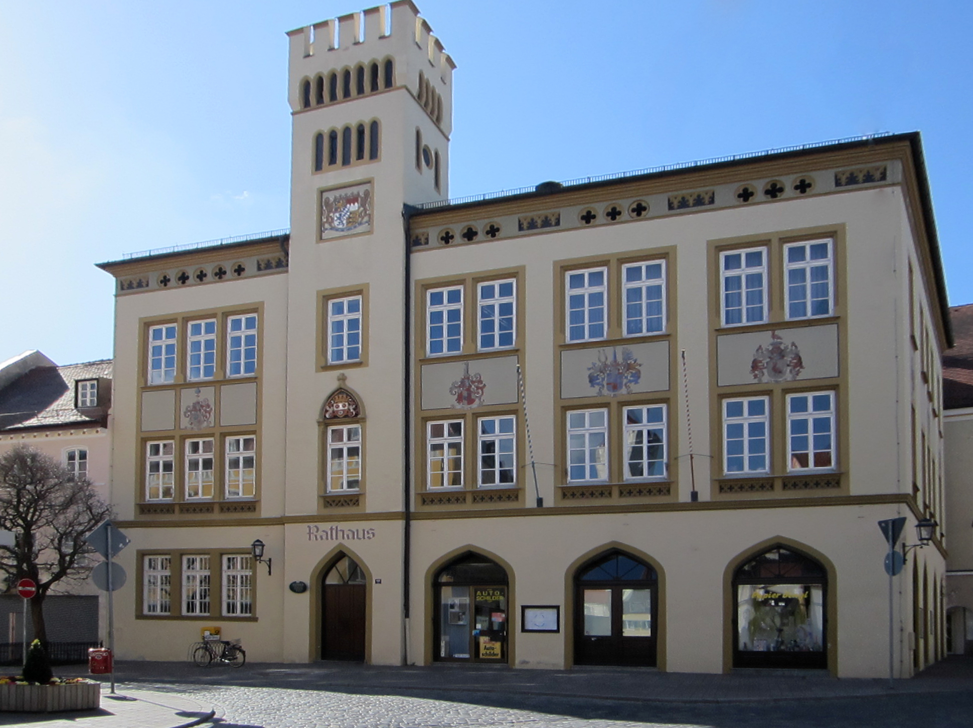 The town hall of Moosburg an der Isar in Bavaria.